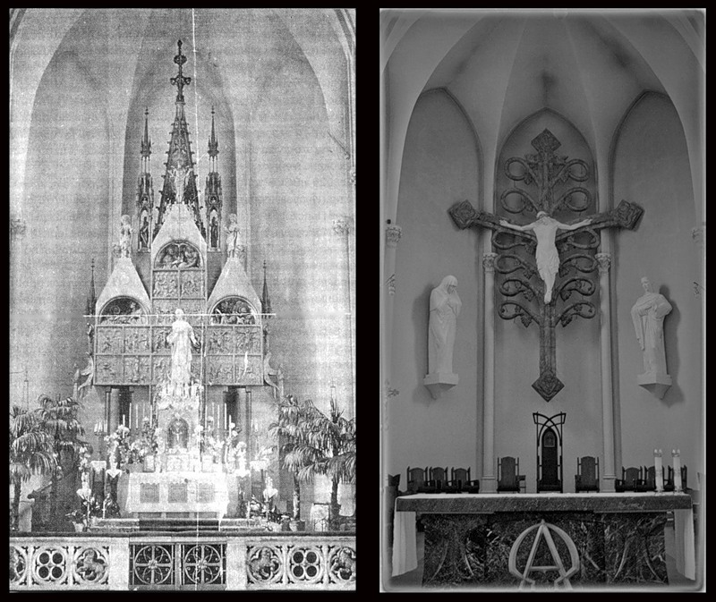 Cathedral of the Immaculate Conception of the Holy Virgin Mary, Moscow. Old and new main altar.